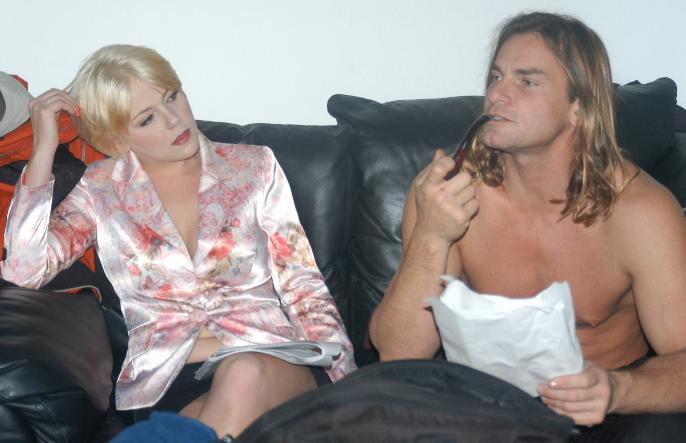 Missy Monroe, Evan Stone On Set With Da Vinci Load From Hustler Video.